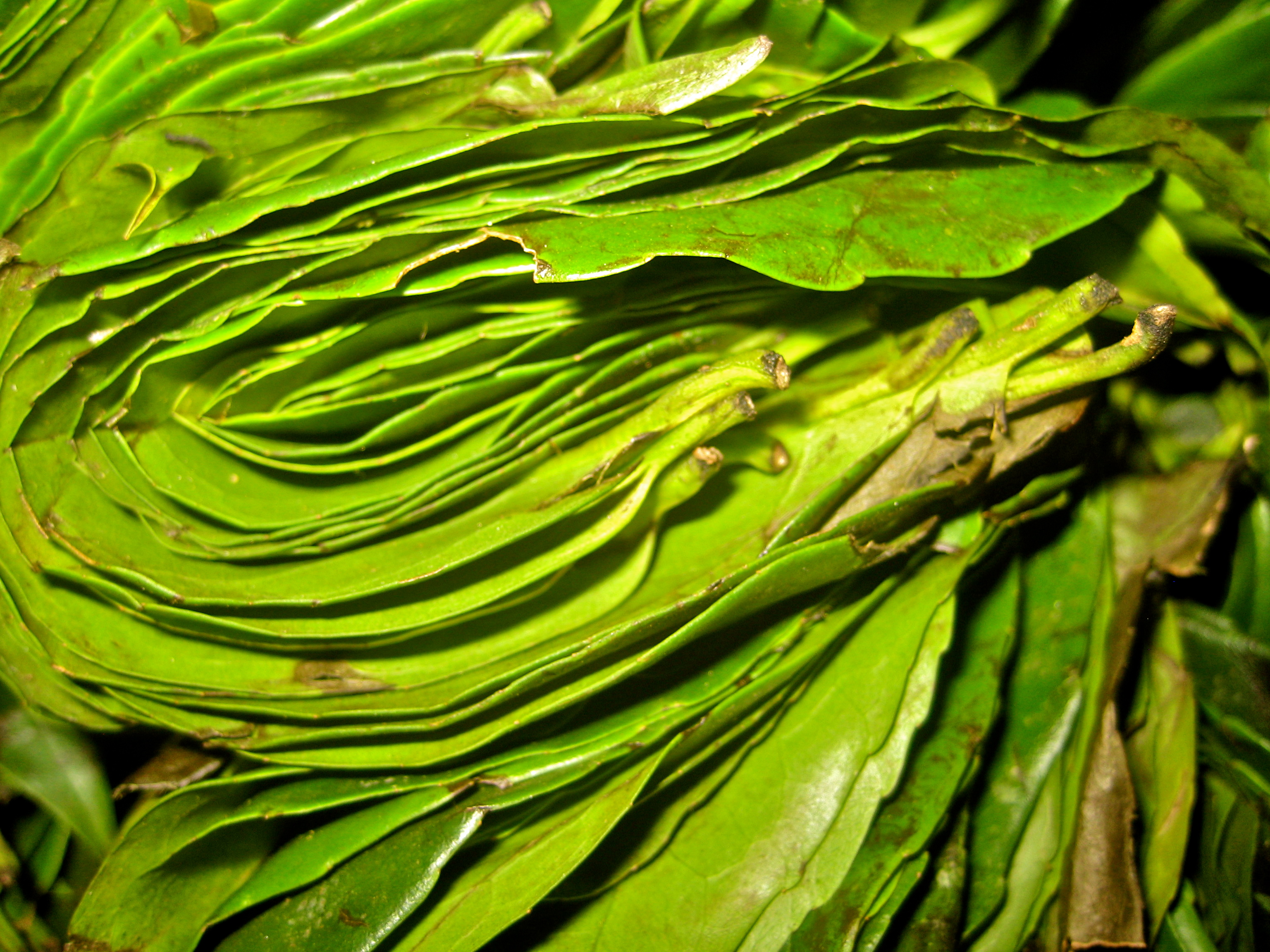 A stack of guayusa leaves in Archidona, Ecuador.